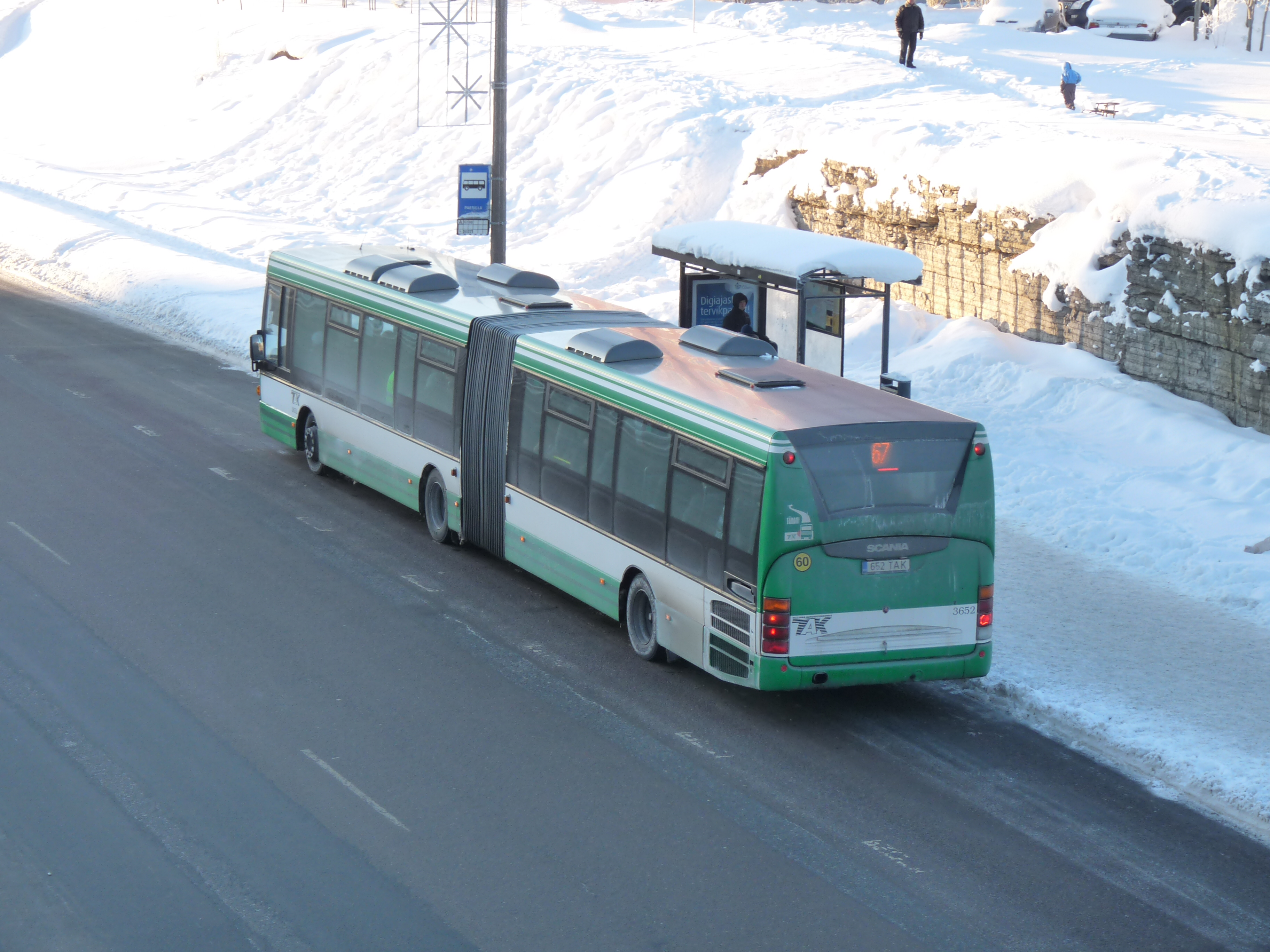 Scania CL94UA6X2 in Tallinn